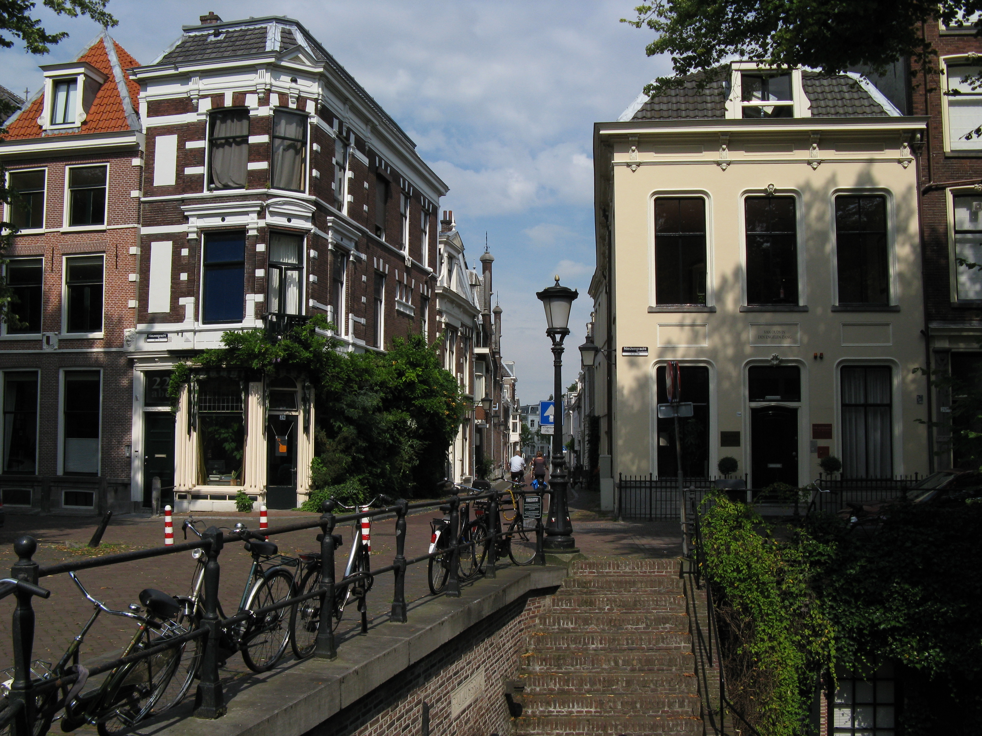 Utrecht